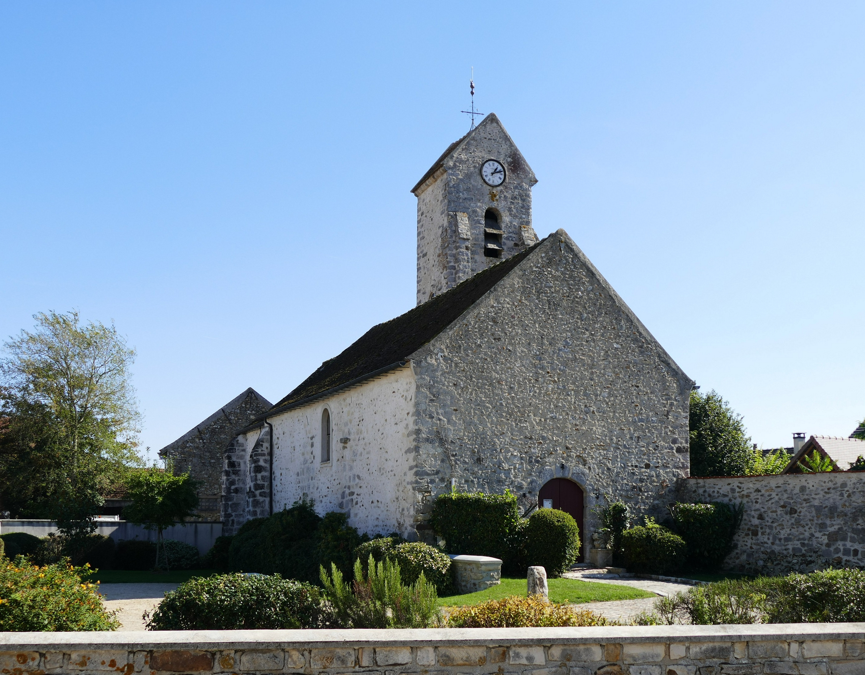 Saint-Médard's church in Limoges-Fourches (Seine-et-Marne, Île-de-France, France).